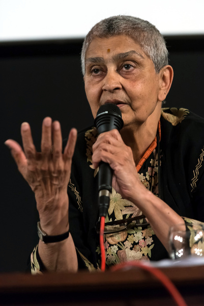 Gayatri Spivak speaking on Subversive Festival 2012 in Zagreb.